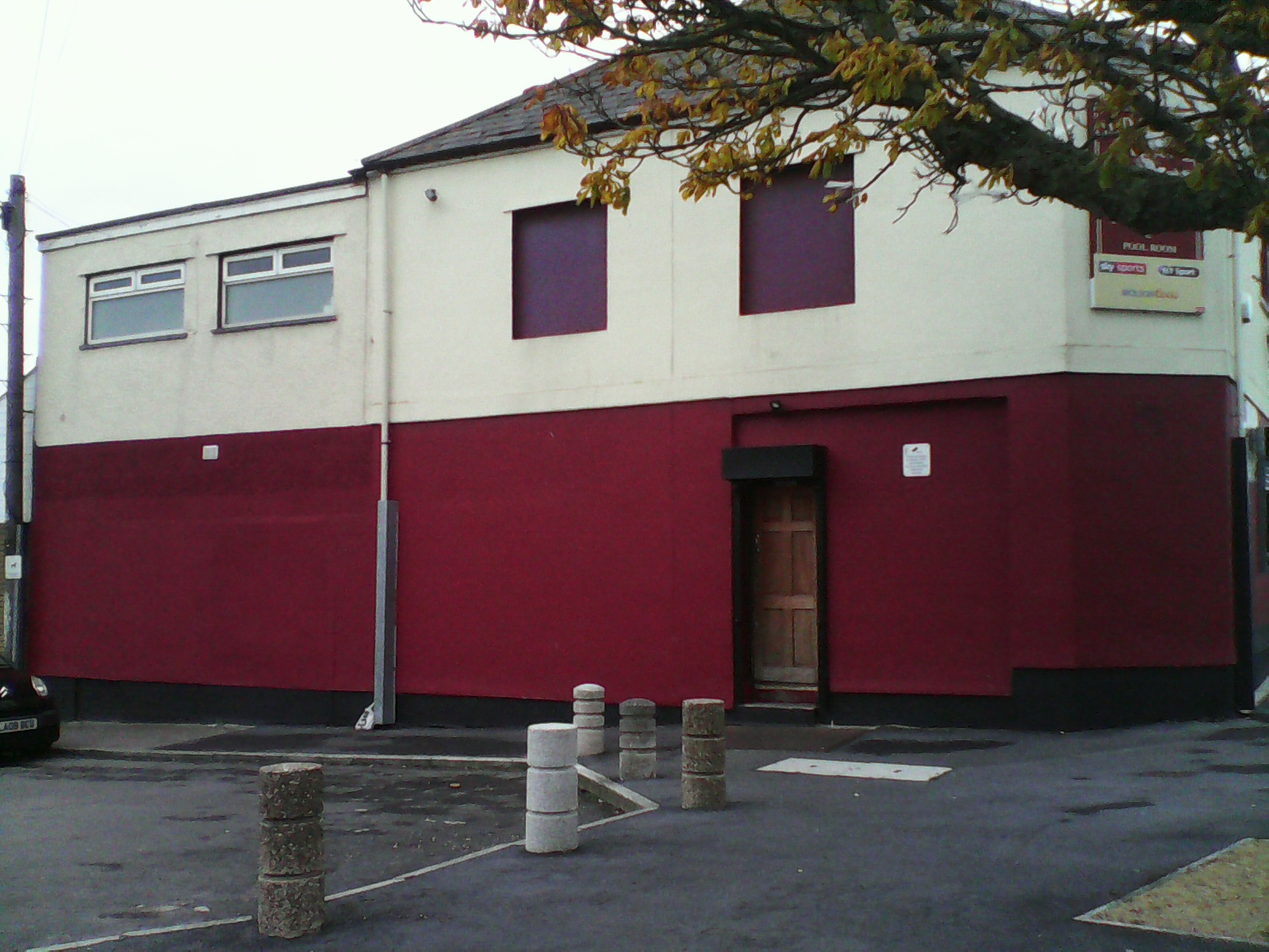 The site of Roath railway station, now occupied by the Old lltydians RFC.